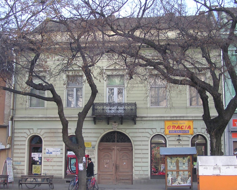 The building in street Trg oslobođenja, number 6 in Sombor